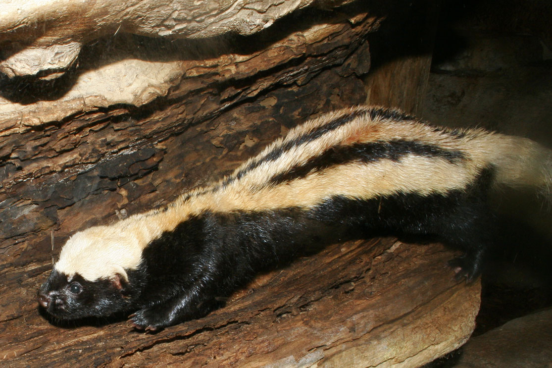 White Naped Weasel, Captive Specimen, Henry Doorly Zoo, Omaha Nebraska